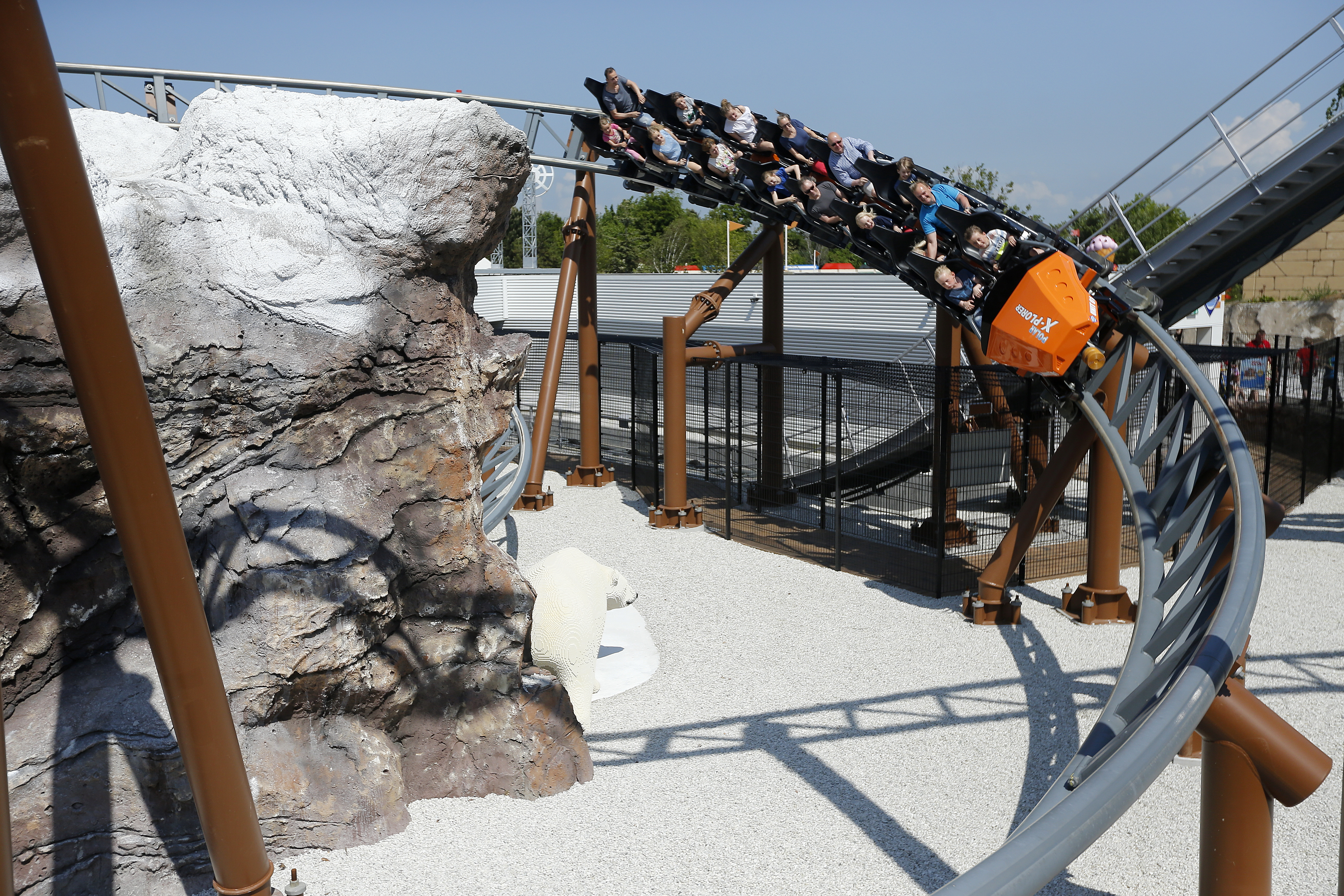 The ride Polar X-press in the amusement park Legoland Billund Resort in Denmark.